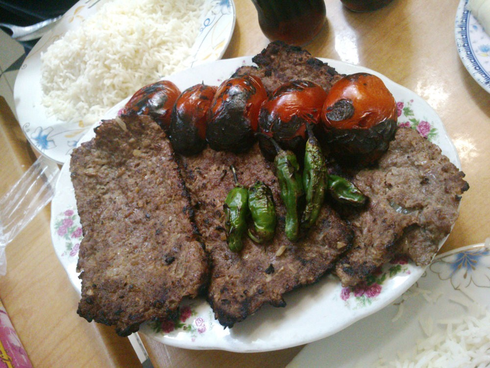 khabab nan dagh